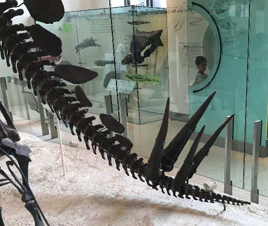 The tail of the stegosaurus fossil at the American Museum of Natural History in New York City. The spikes are the thagomizer.